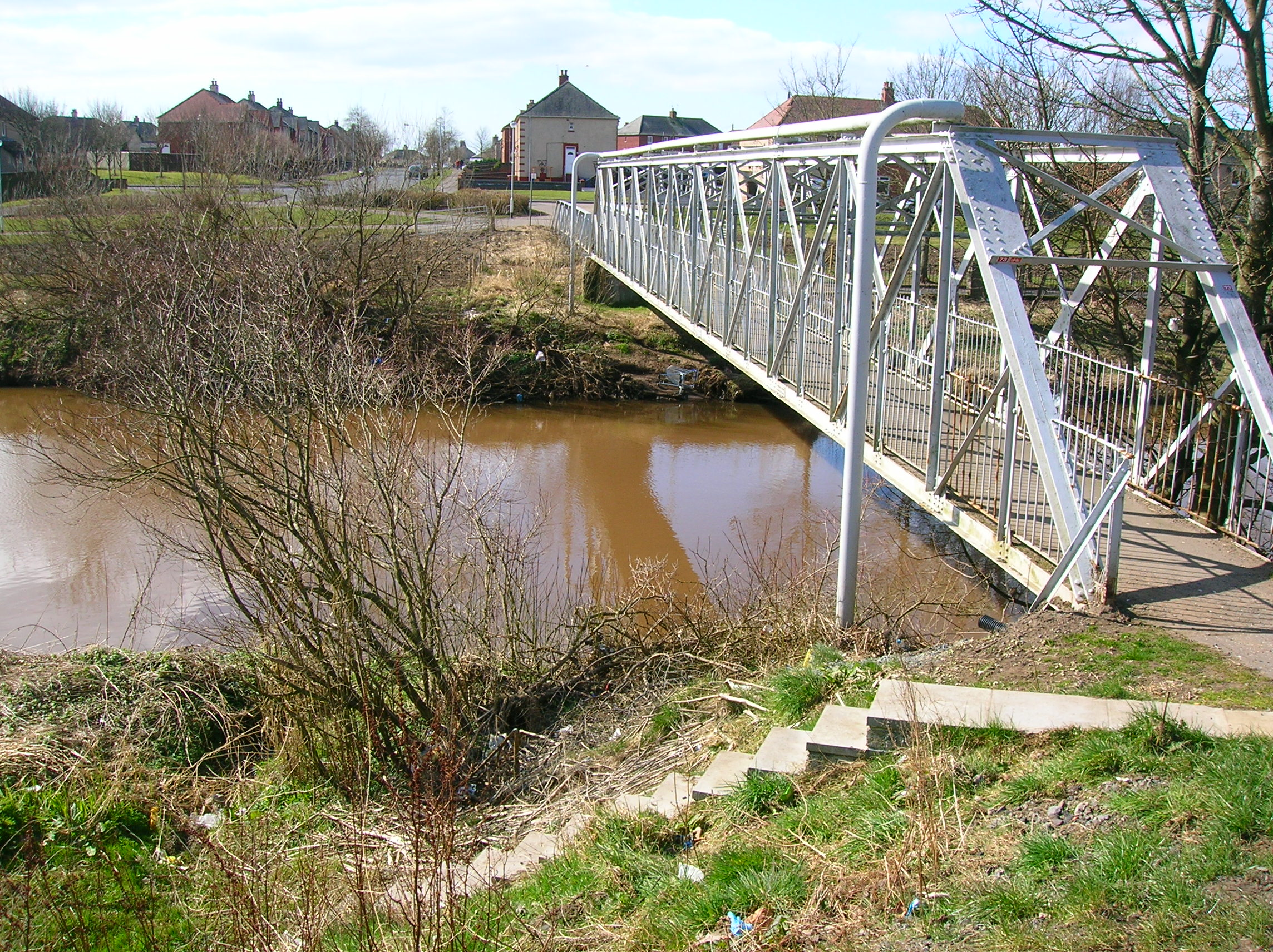 The Tanzie Well next to the footbridge over the River Irvine, Irvine, North Ayrshire, Scotland. Also called St Anne's or the Washing House Well.